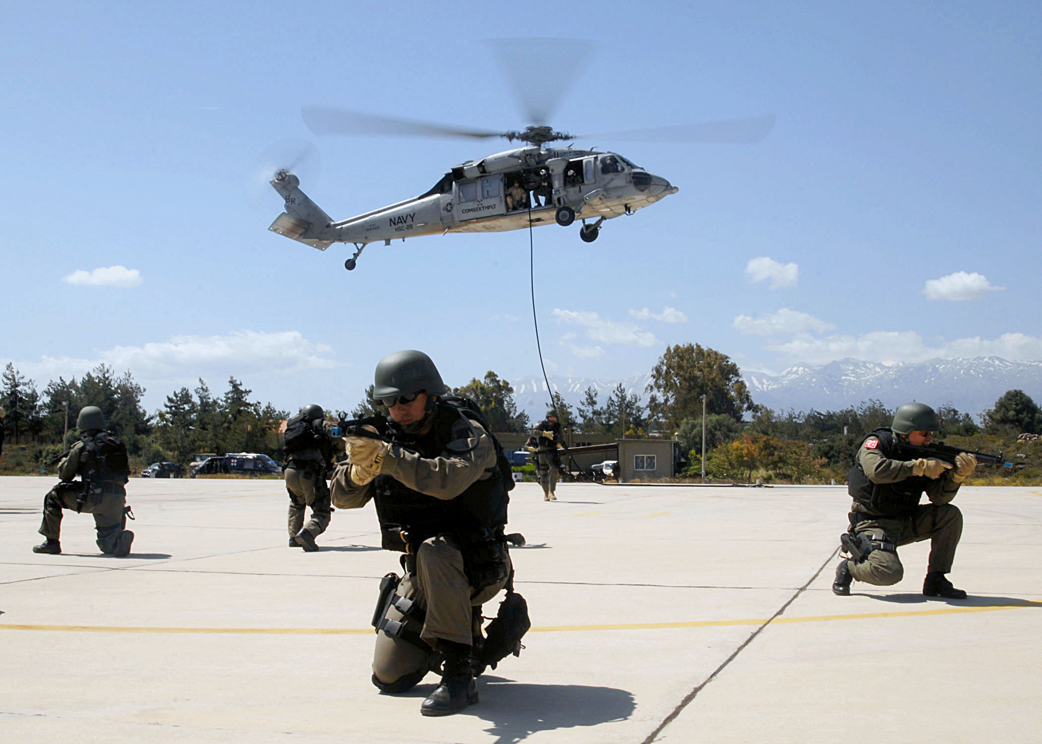 SOUDA BAY, Greece (April 30, 2009) Turkish sailors perform fast-rope exercises from a U.S. Navy MH-60S Sea Hawk helicopter during exercise Phoenix Express. Phoenix Express is part of the overall U.S. Africa Command and U.S. Naval Forces Europe, U.S. Naval Forces Africa, U.S. 6th Fleet Theatre Security Cooperation strategy to enhance regional stability in the region through increased interoperability and cooperation among regional allies from the United States, Africa, and Europe. (U.S. Navy photo by Mass Communication Specialist Seaman Apprentice Whitfield M. Palmer/Released)